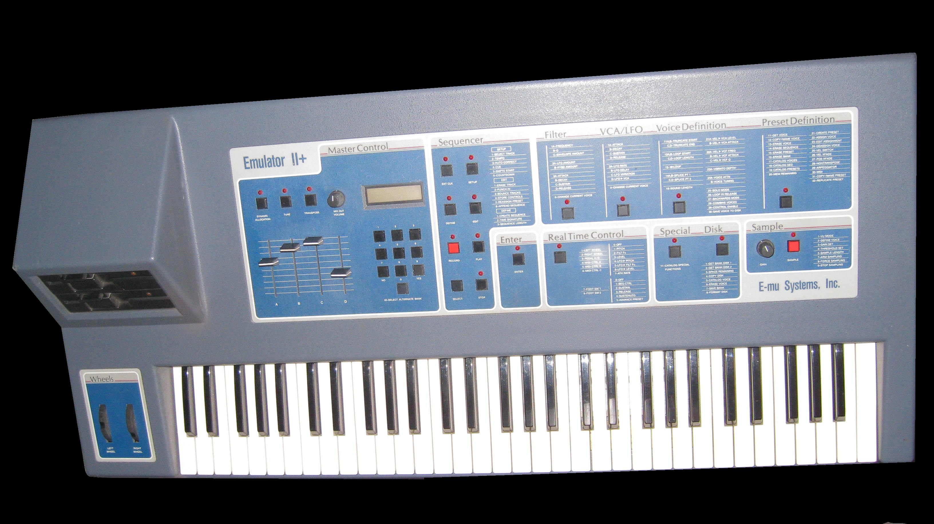 E-mu Emulator II +. An 8-voice sampler with 24dB analog filters (SSM2045) and envelopes using a compressed 8-bit sampling format, produced in 1984.